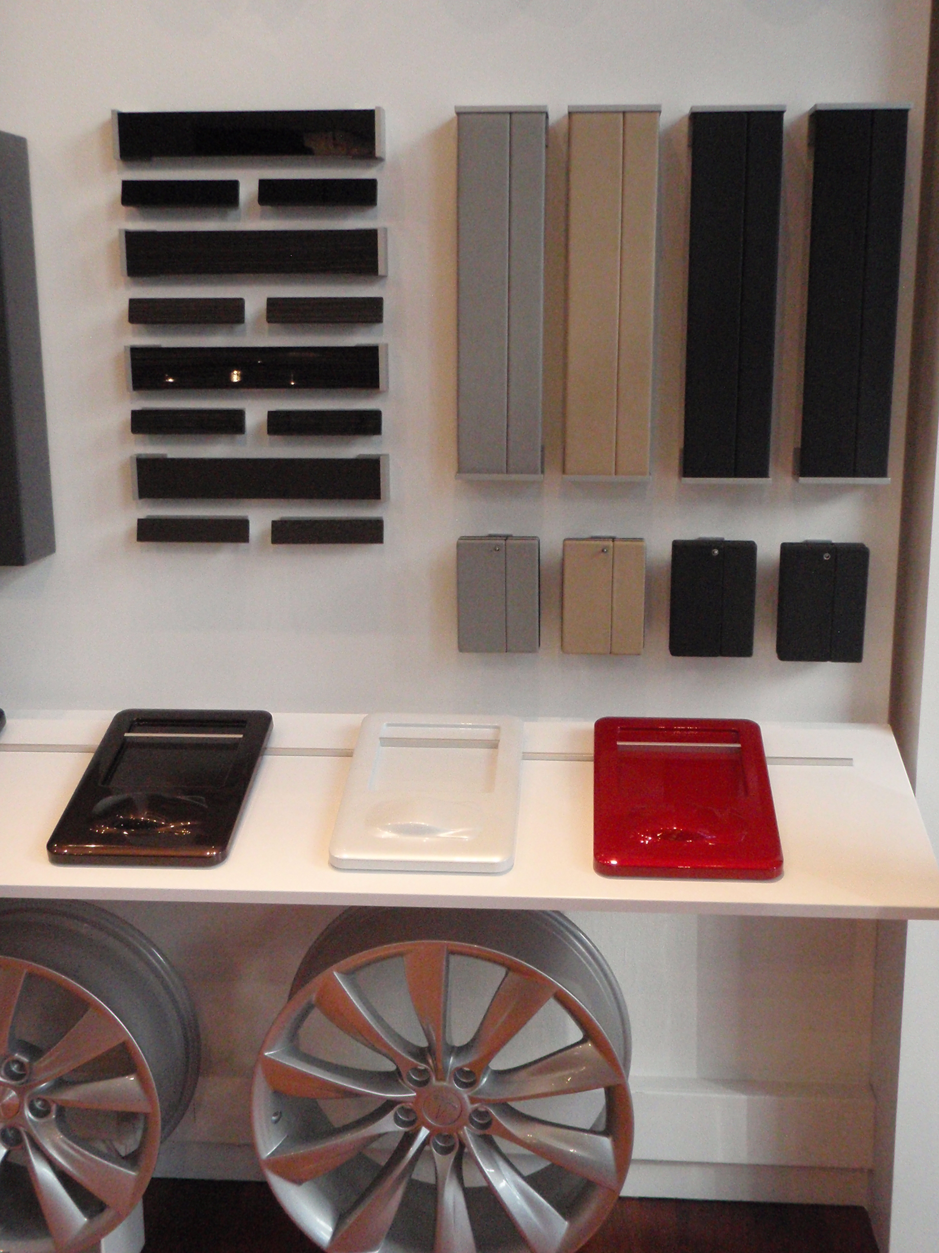 Tesla Store with samples of interior, paint and 19 Cyclone (bottom left) and 21 Turbine wheels (botton right)